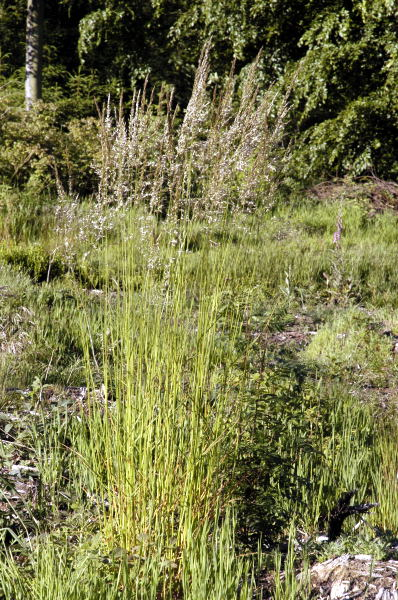 Picture taken in Commanster, Belgian High Ardennes . Species: Calamagrostis arundinacea